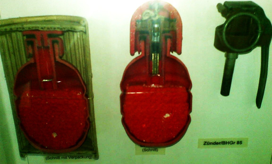 Cutaways of the Brandhandgranate 85 (a hand grenade)